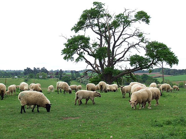 Sheep Grazing, Allscott, Shropshire The buildings of Lower Alscott on the A442 are just visible.